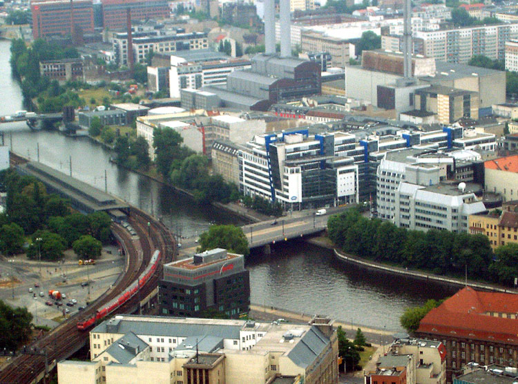 Jannowitzbrücke in Berlin, seen from the TV tower